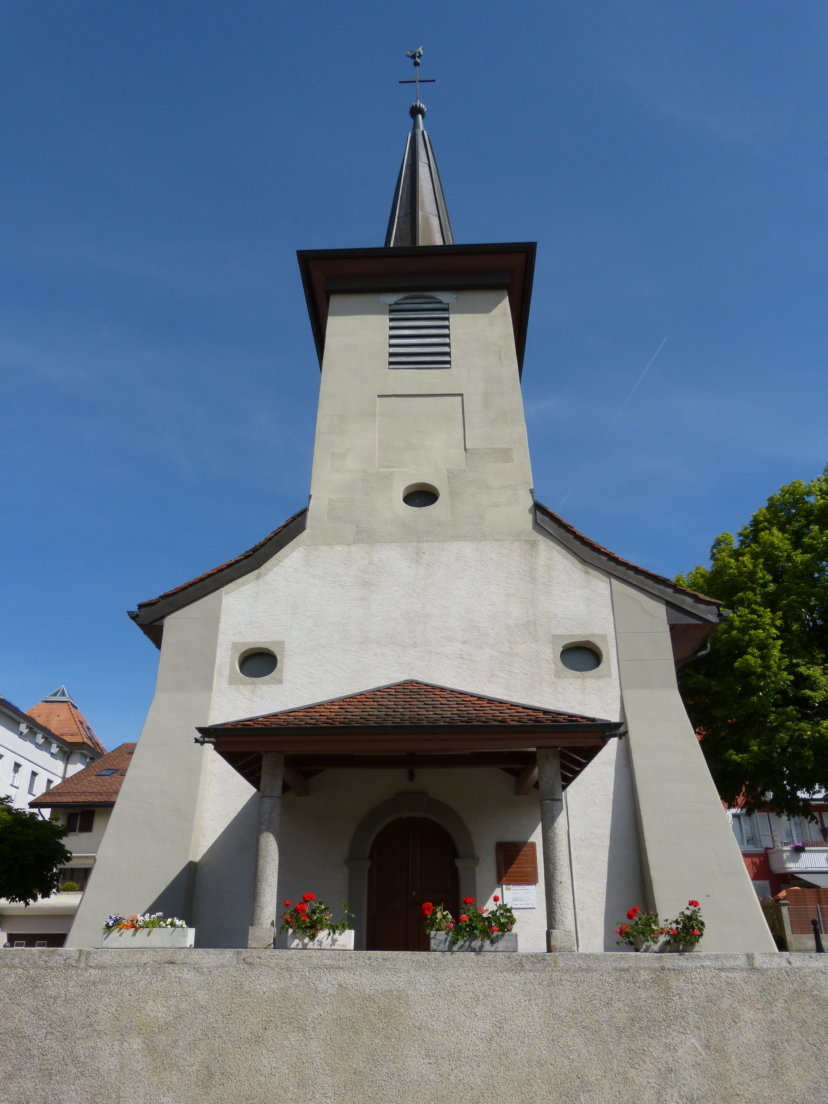 Main entrance of Saint-Lawrence chapel in Étagnières.